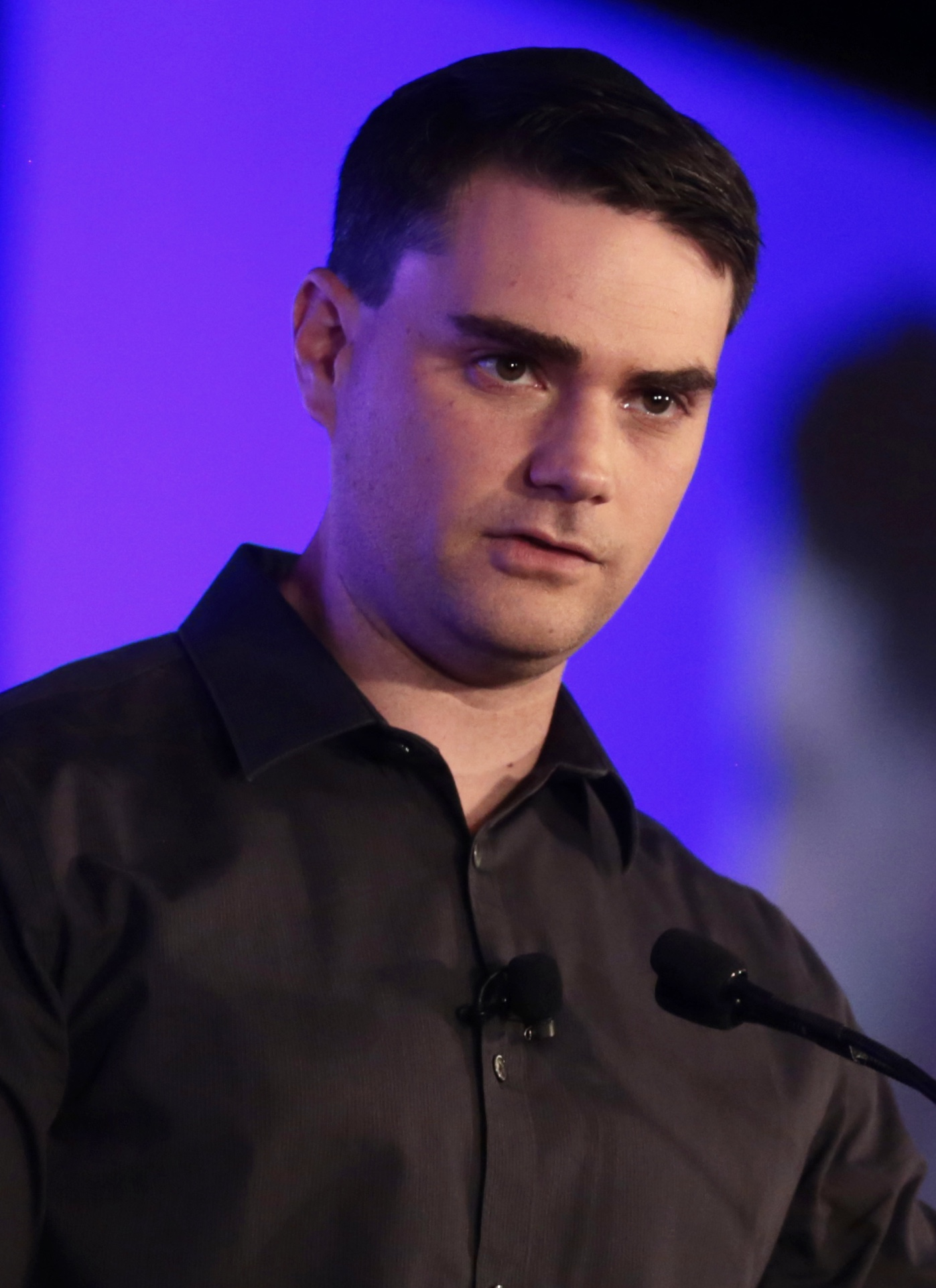 Ben Shapiro speaking with attendees at the 2018 Young Women's Leadership Summit hosted by Turning Point USA at the Hyatt Regency DFW Hotel in Dallas, Texas.